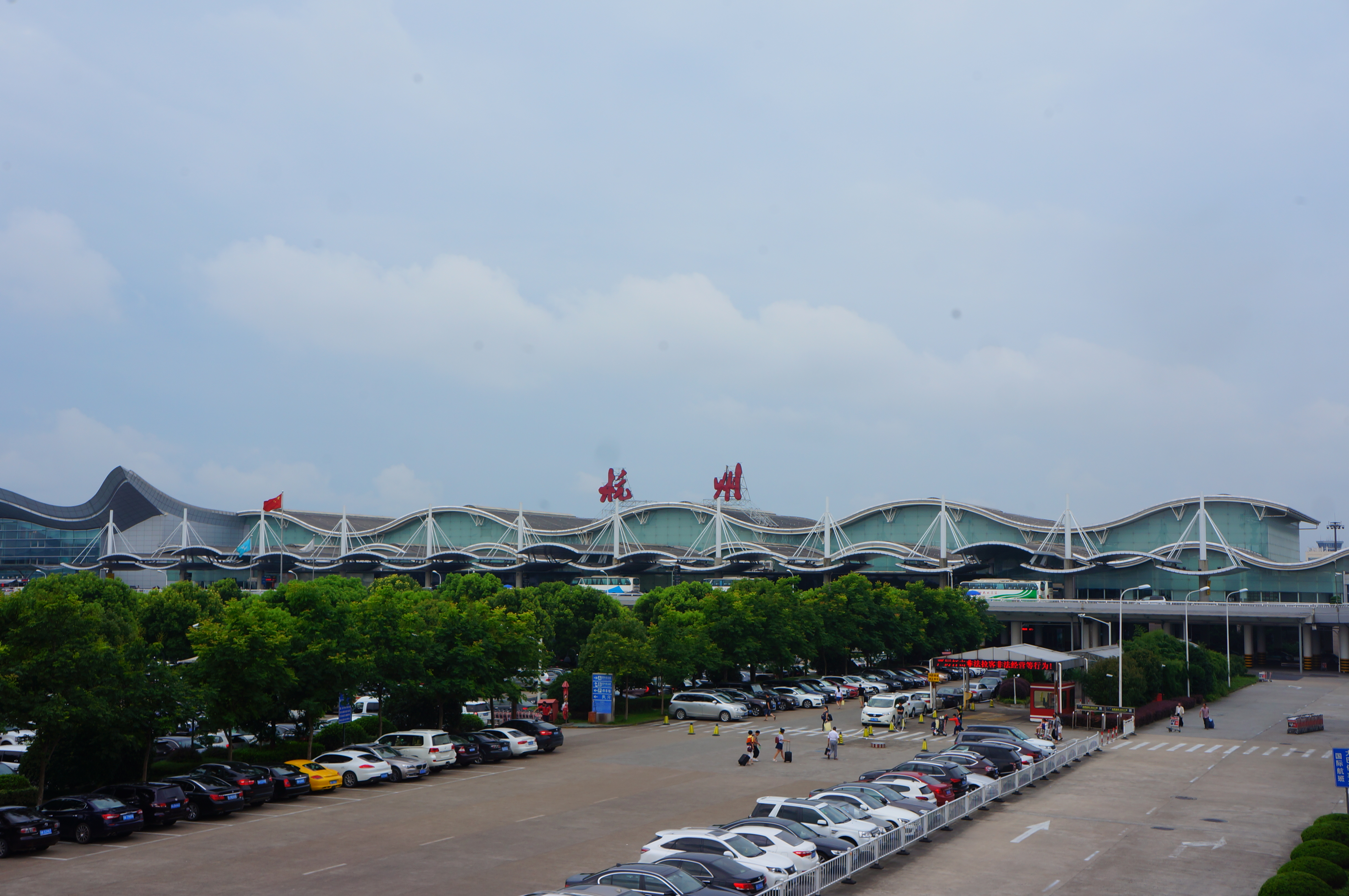 201607 Hangzhou Xiaoshan Intl Airport